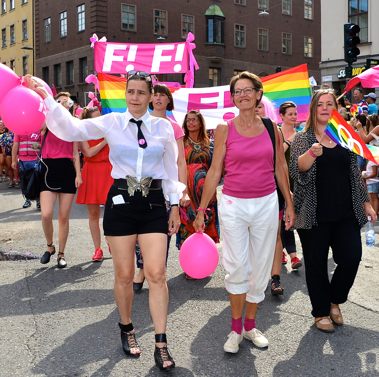 Members of the Swedish Feministiskt initiativ in the final Pride Parade during Stockholm Pride in 2014. Party leader Gudrun Schyman in pink.